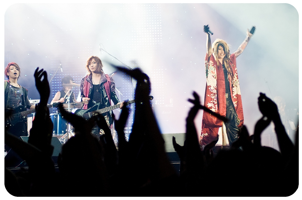 Kagrra - j-rock angura kei band